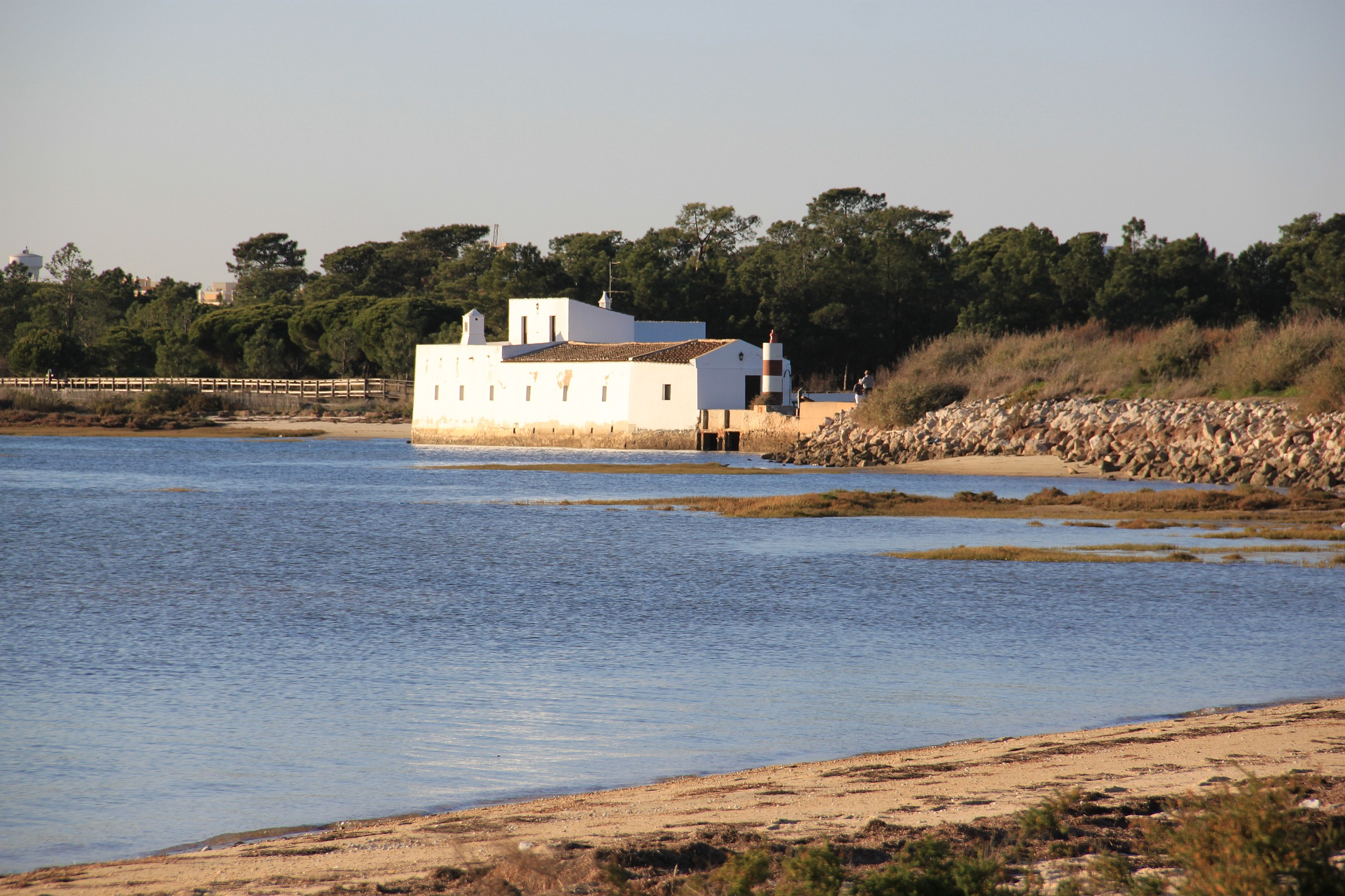 Tide mill in Olhão, Algarve, Portugal